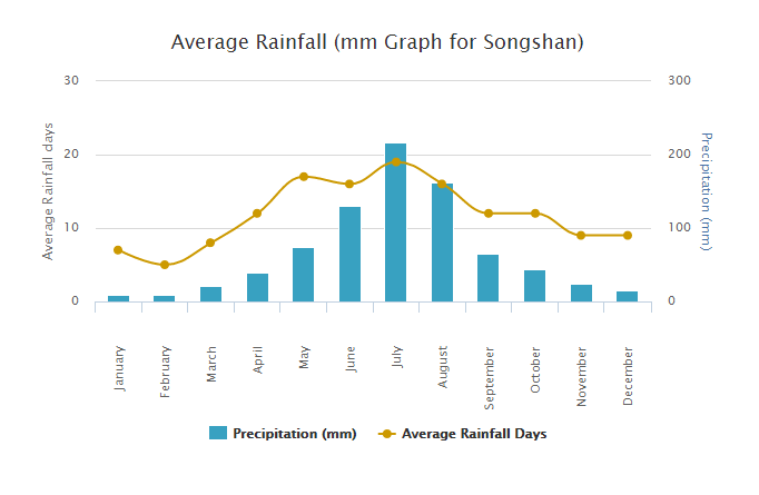 Av Rain